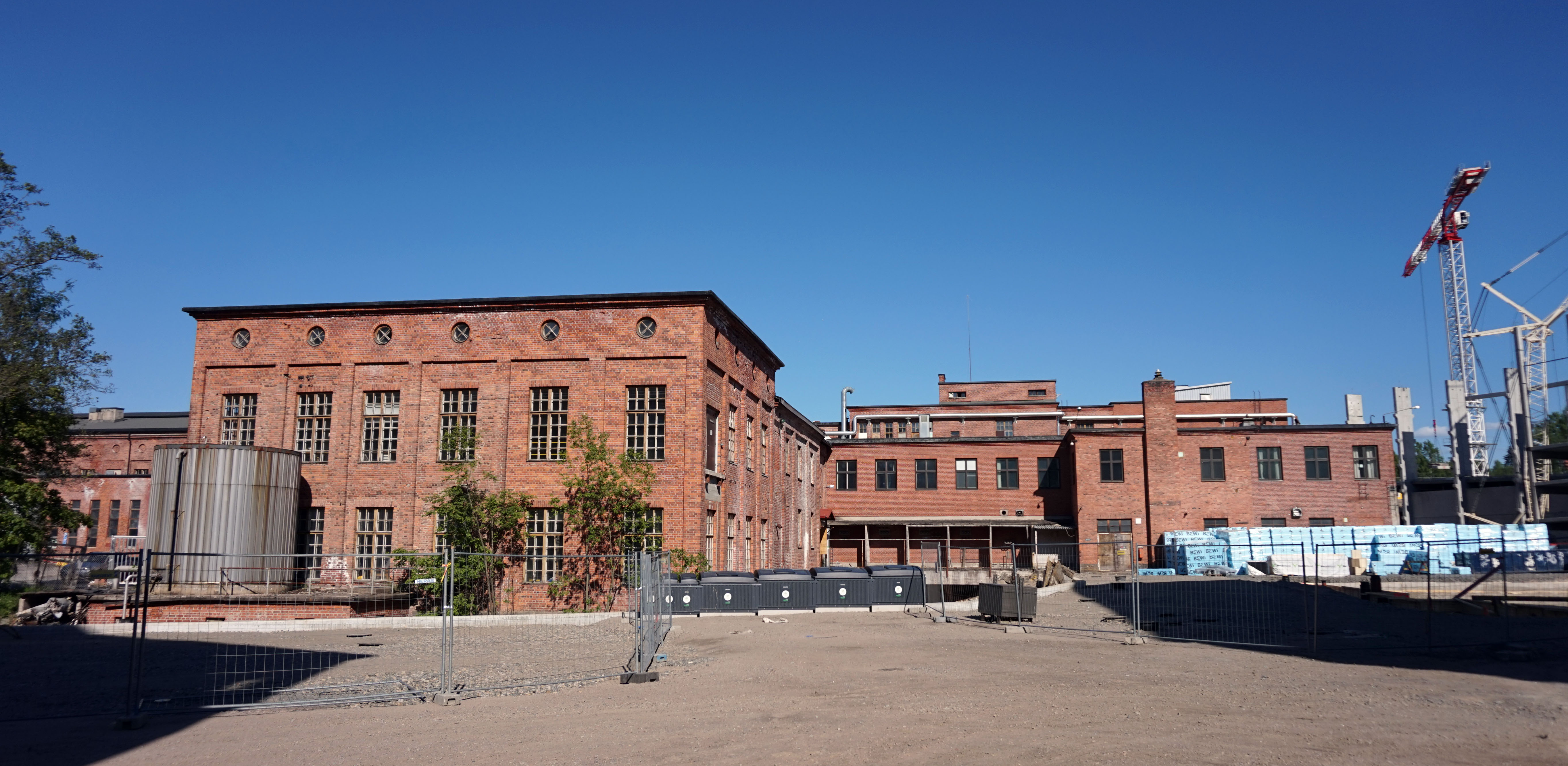 Old factory in the Kangas subdistrict in Tourula district, Jyväskylä